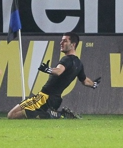 Ismail Isa